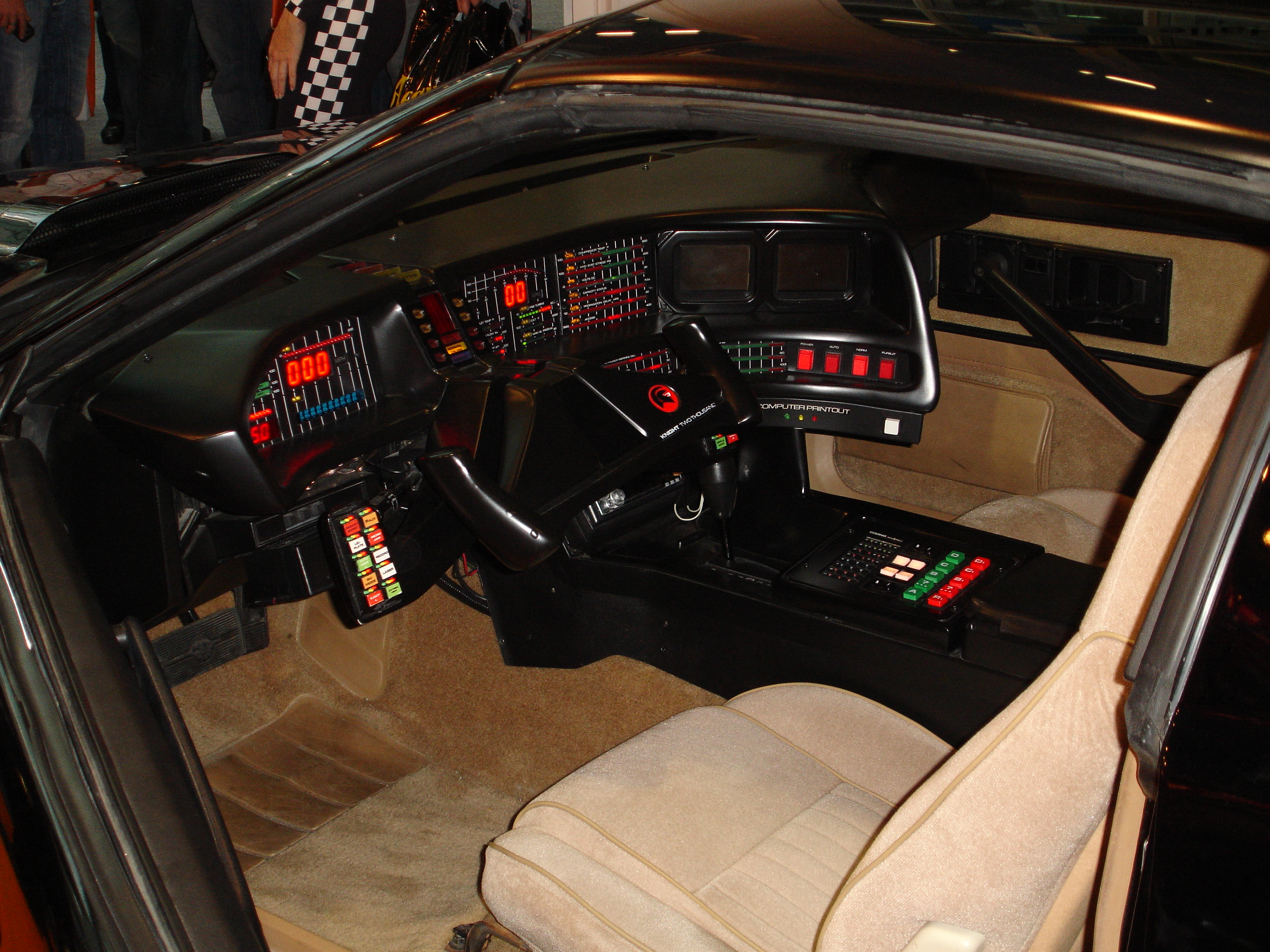 Cockpit of the original Knight Rider